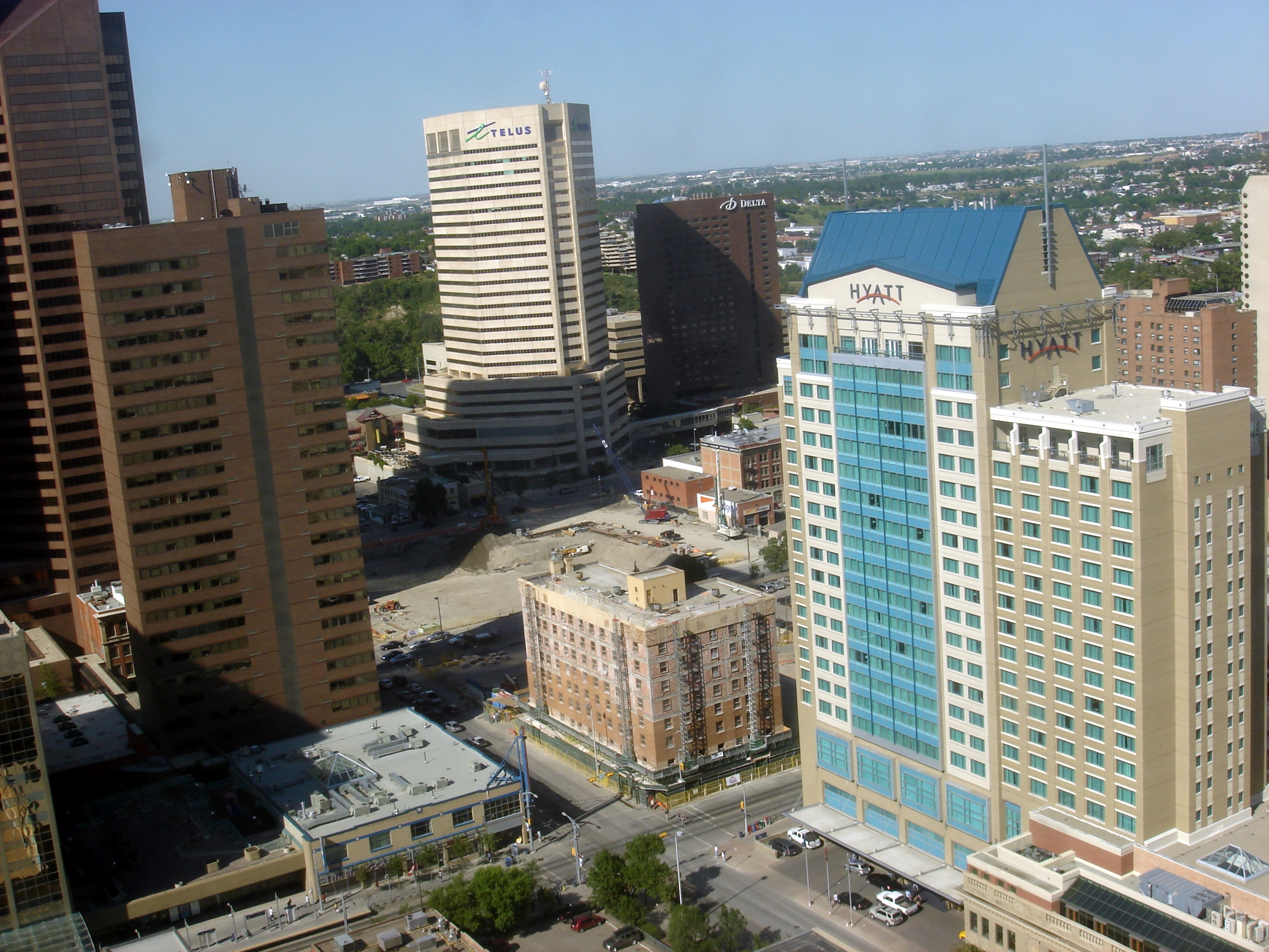 Future location of The Bow Tower, Calgary Alberta. The York Hotel (centre) will be incorporated in the building. Skywalks will connect the tower to the Hyatt Regency Hotel (foreground), Petro-Canada Centre (left) and Telus Tower (background). 6th Avenue will be excavated, and the parkade will extend below two blocks.